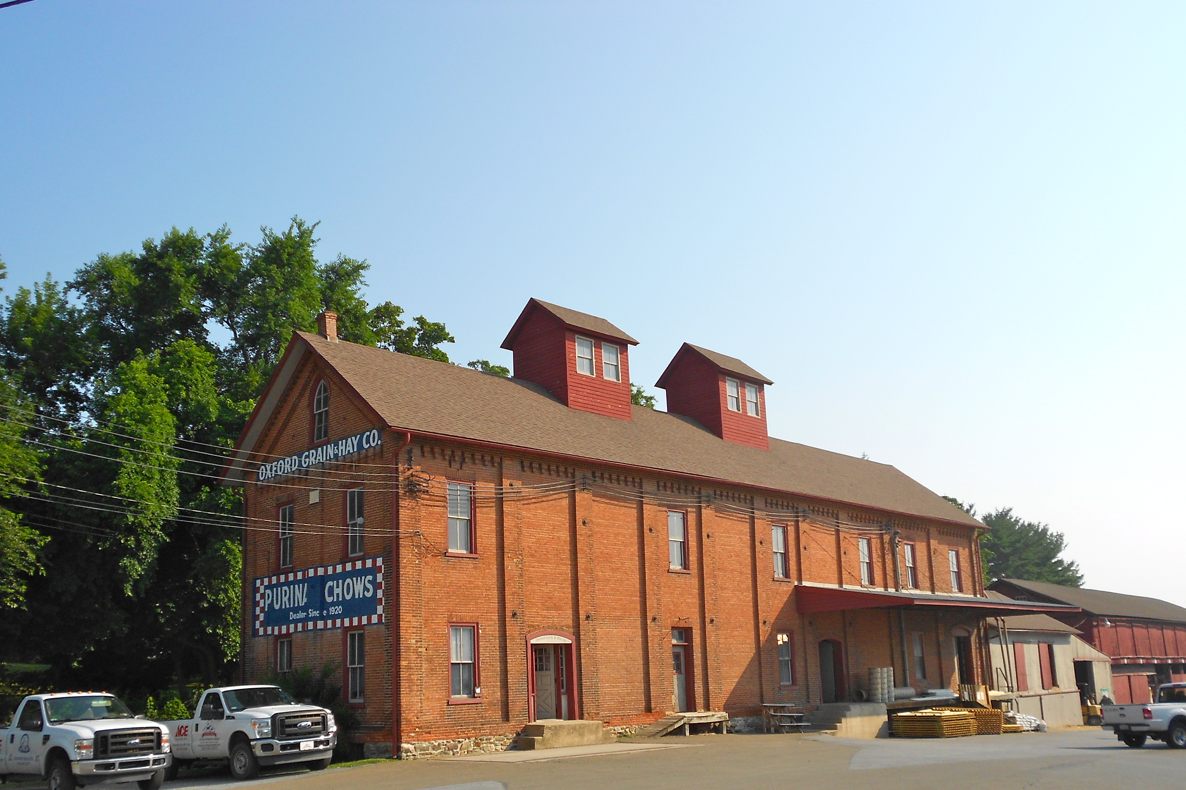 Building in the Oxford Historic District on the National Register of Historic Places since February 1, 2007. the district is roughly bounded by Church Road (N), Chase Street (E), and Hodgson Street (S).